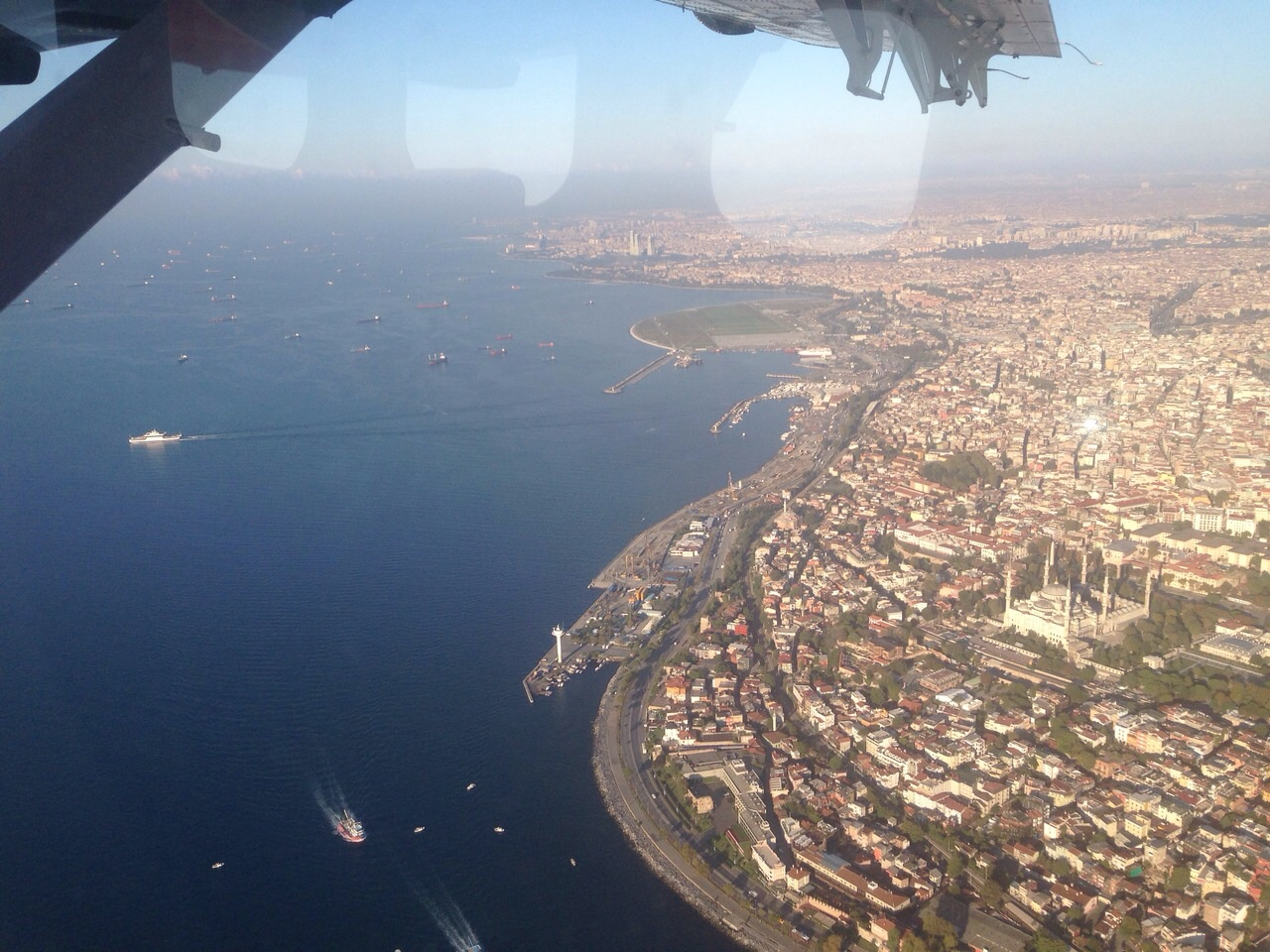 İstanbul, Fatih, Yenikapı, Sultan Ahmet Camii, Oct 2014 - View from seaplane